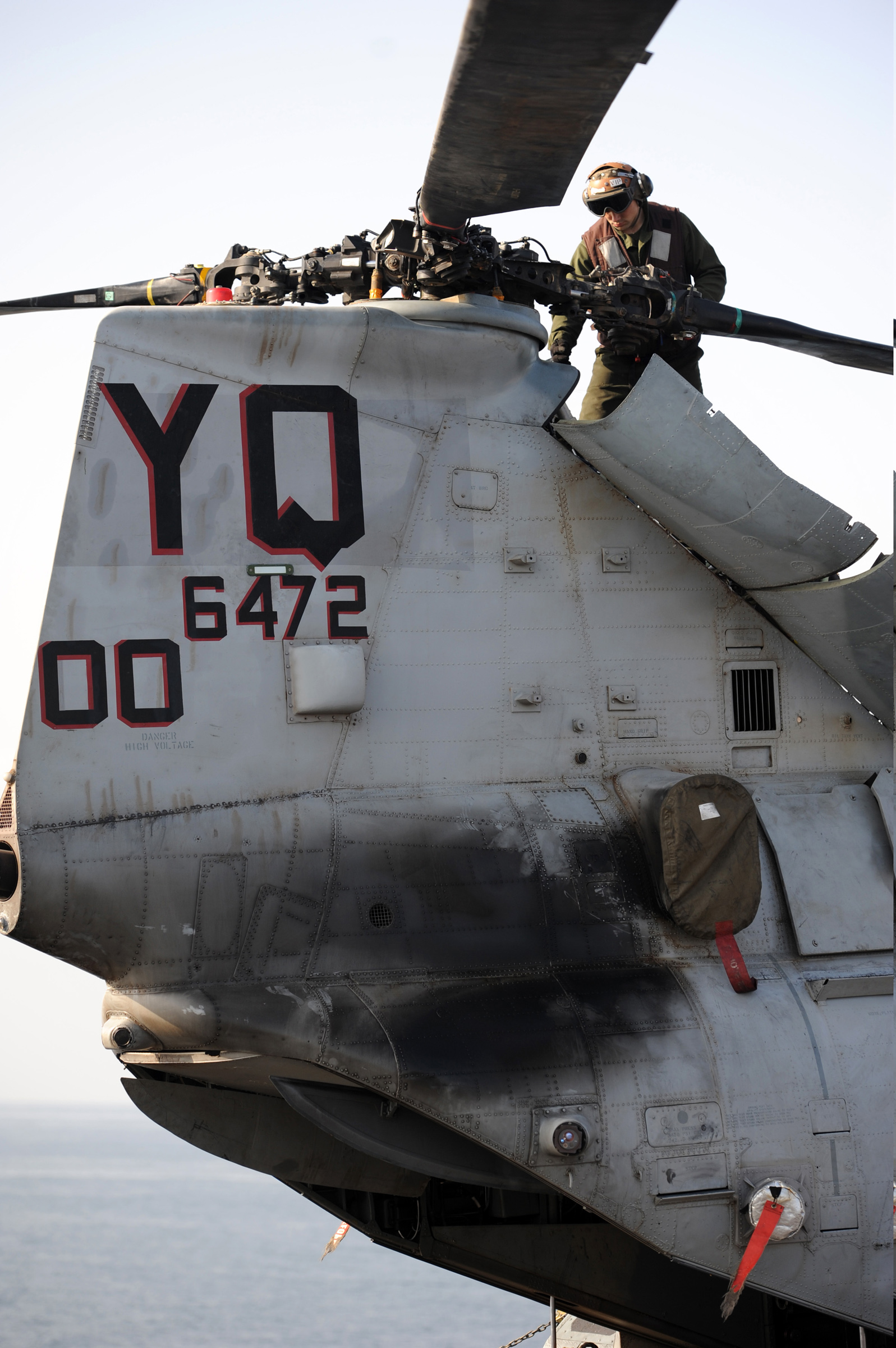 ARABIAN SEA — Lance Cpl. Daniel Boskovitch, assigned to the 11th Marine Expeditionary Unit (11th MEU), performs maintenance on a CH-46E Sea Knight helicopter assigned to Marine Medium Helicopter Squadron (HMM) 268 (Reinforced) aboard the amphibious assault ship USS Makin Island (LHD 8). Makin Island and embarked Marines assigned to the 11th Marine Expeditionary Unit (11th MEU) are deployed supporting maritime security operations and theater security cooperation efforts in the U.S. 5th Fleet area of responsibility.